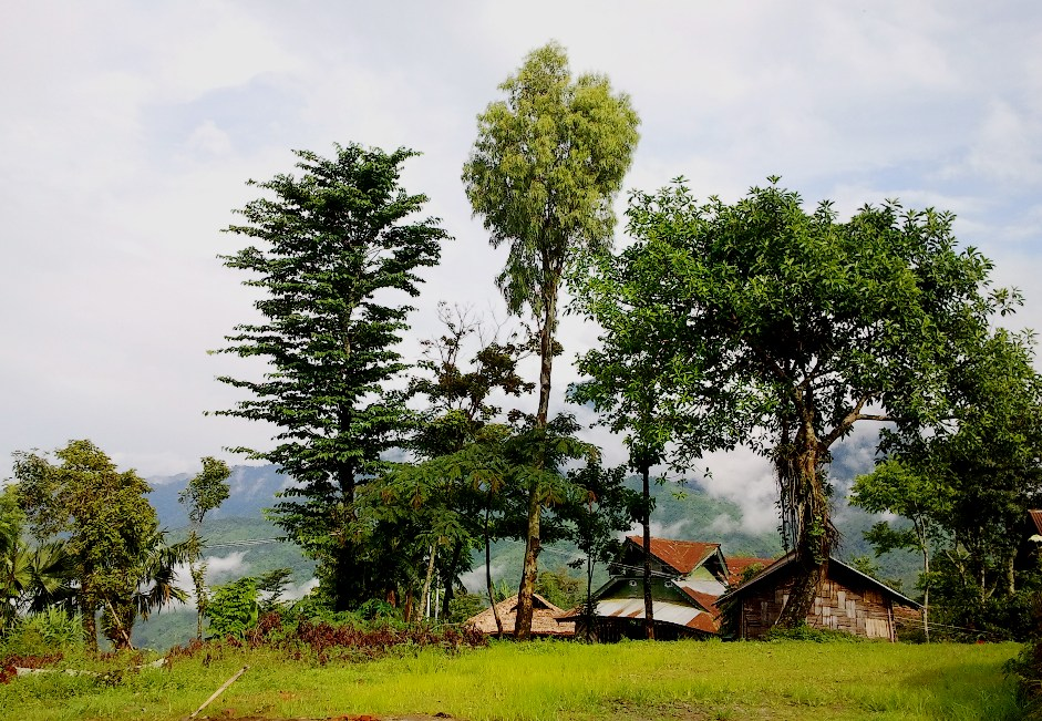 Mon district of Nagaland, India is placed on the Northeastern part of the State of Nagaland. The district is also known as the land of the Konyaks and the tattooed warriors in loincloths. (Photo - Jim Ankan Deka)